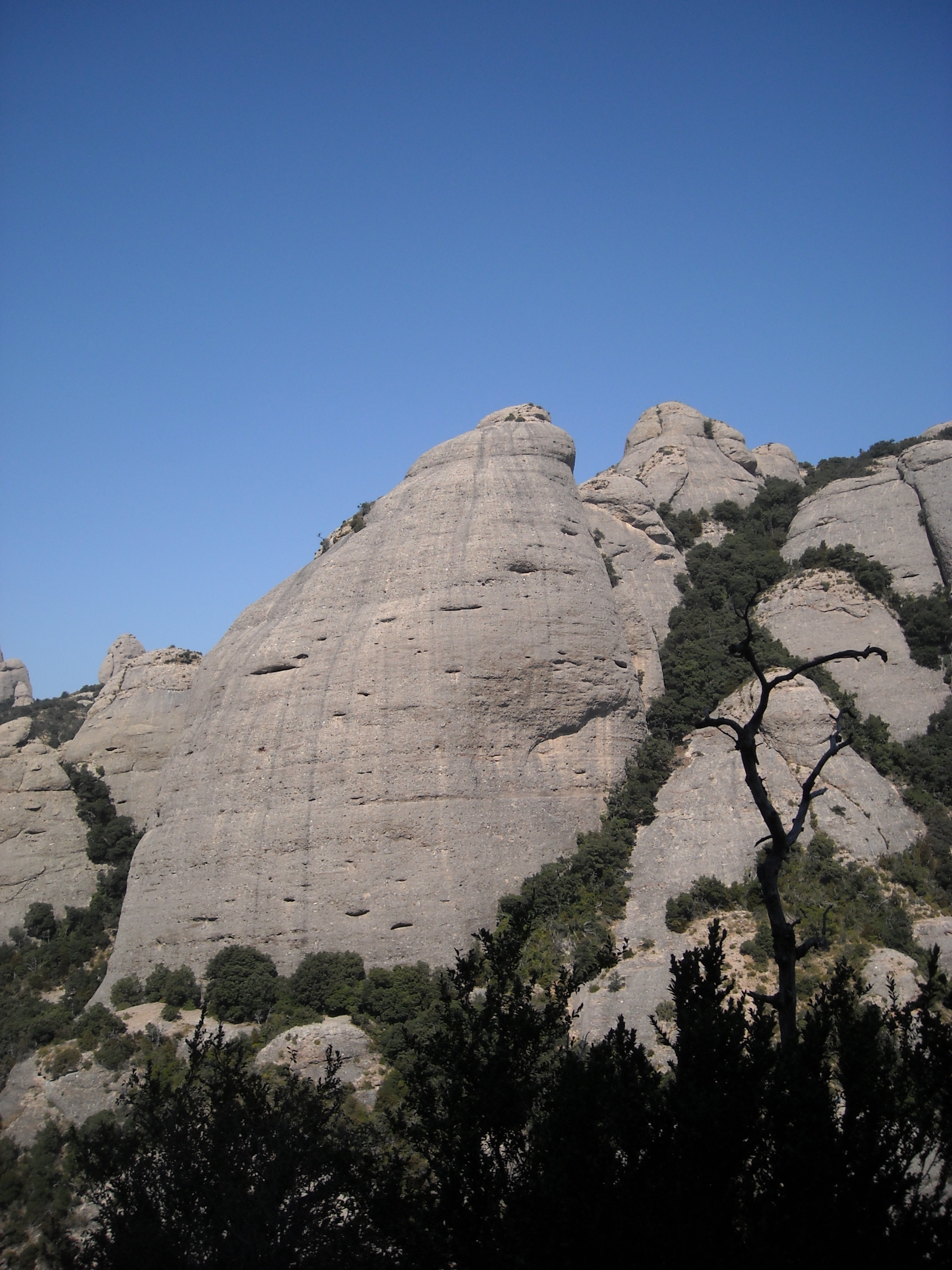 La Panxa del Bisbe, a Montserrat.